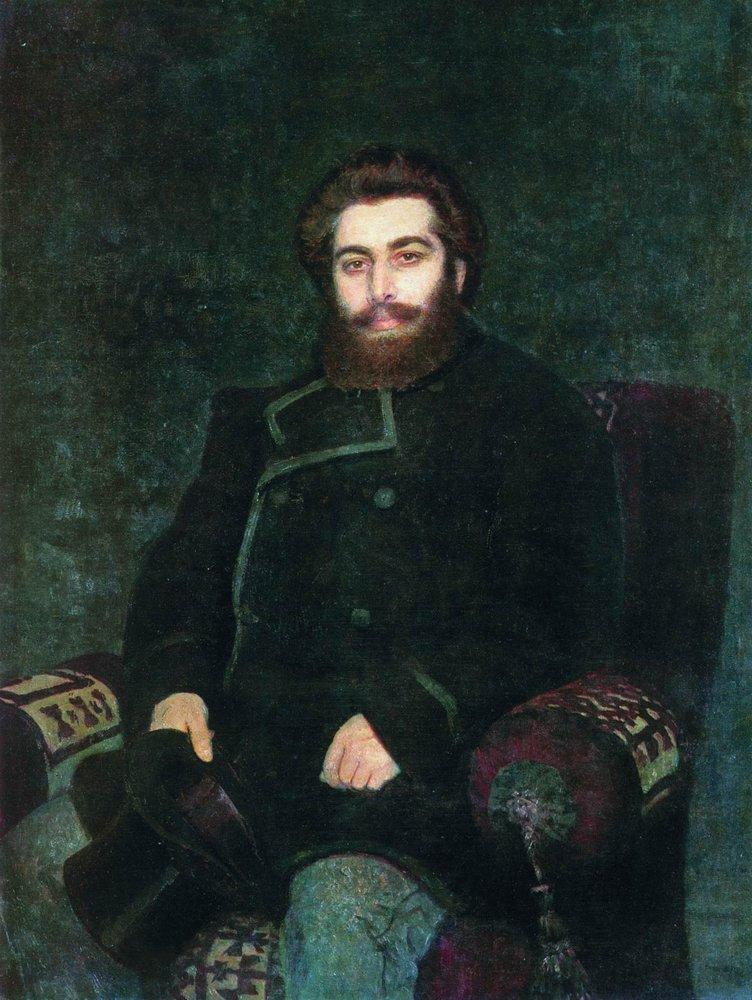 Portrait of painter Arkhip Ivanovich Kuindzhi